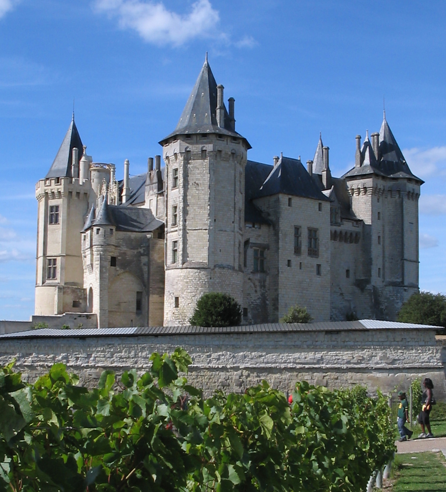 Taken by Joseph Morris (the uploader).